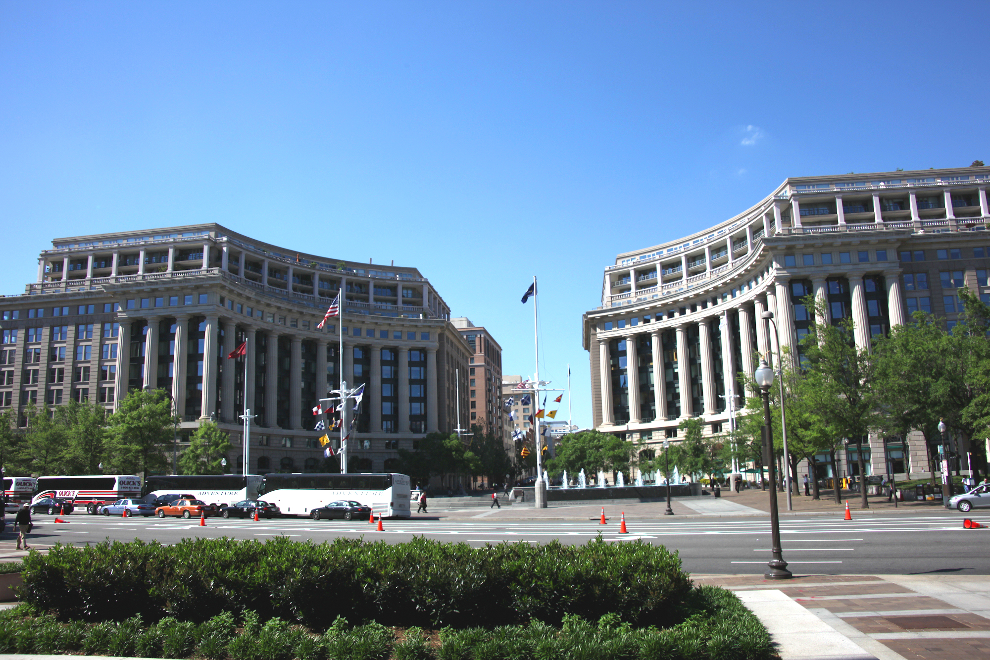 Looking north at Market Square, a combined retail and residential building completed in November 1990 on Pennsylvania Avenue NW in Washington, D.C., United States. Market Square is comprised of the West Tower and East Tower. The United States Navy Memorial (flag poles and fountain) is in the Market Square Plaza south of the development. The entrance to the Archives-Navy Memorial Metro station is visible on the right of the image beneath the trees.